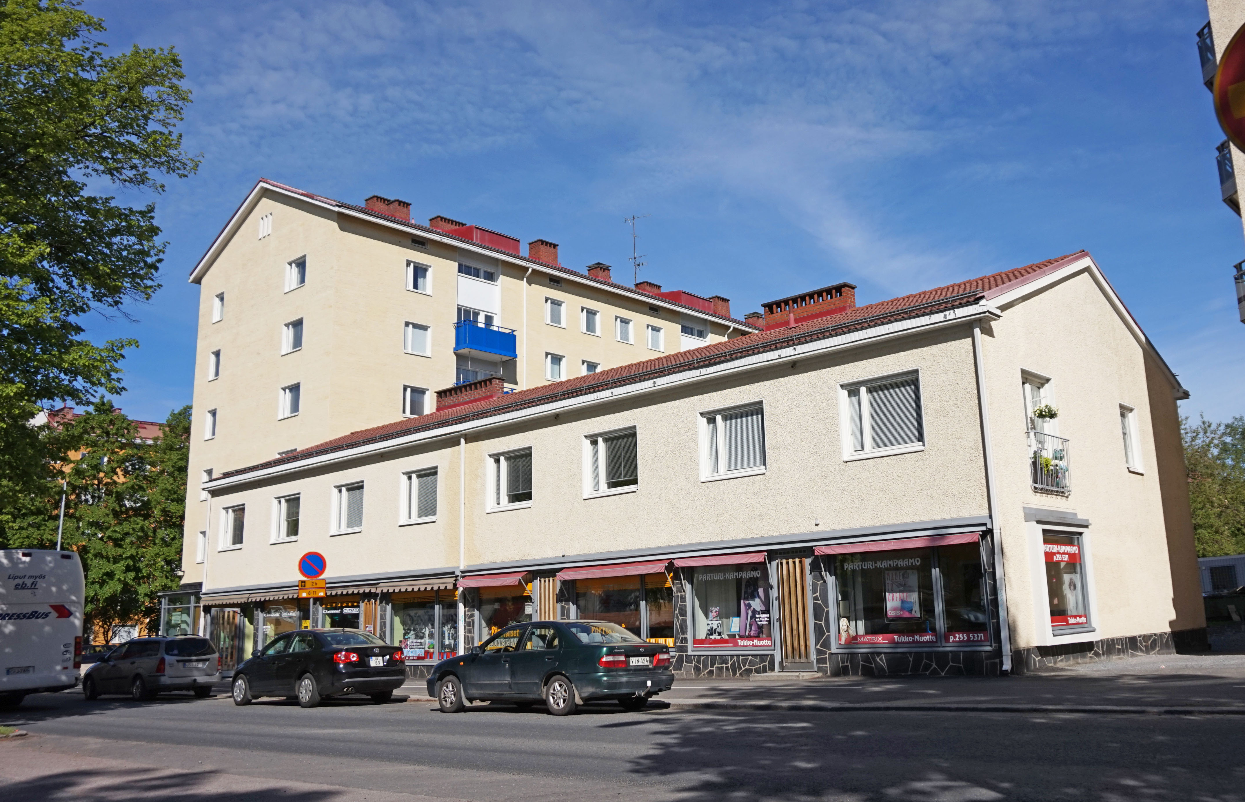 Street Teiskontie in Tampere, Finland.This photograph was taken with a Sony ILCE-5000